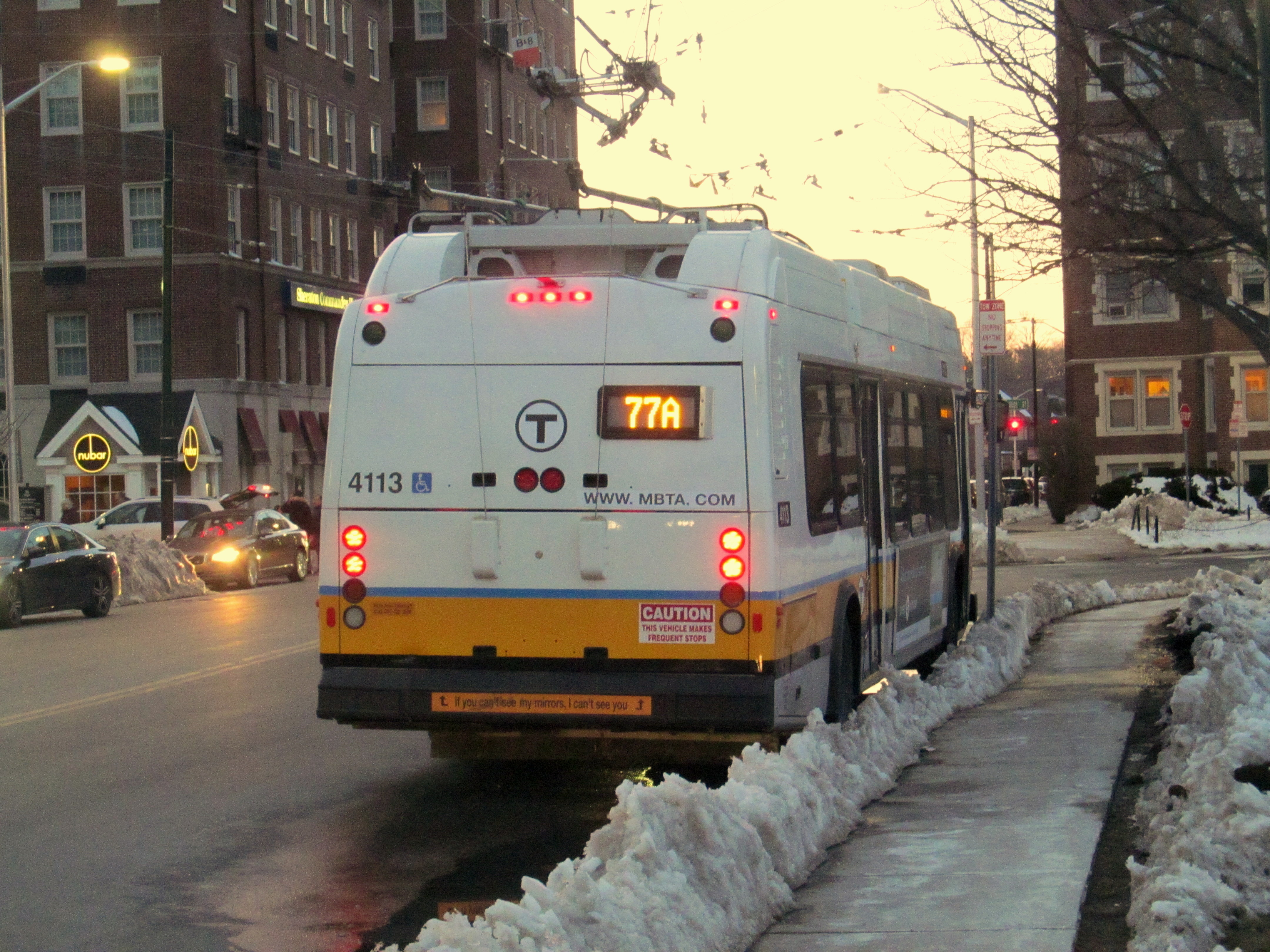 An MBTA route 77A trolleybus laying over at Cambridge Common in March 2017